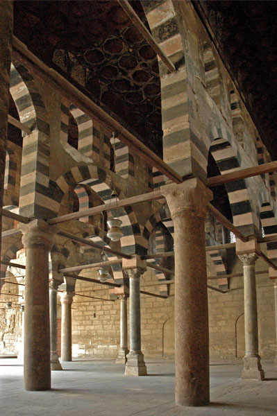 Al-Nasir Muhammad Mosque. Cairo. Egypt